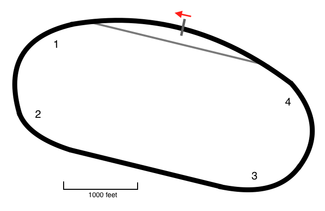 This file is a map of Michigan International Speedway.